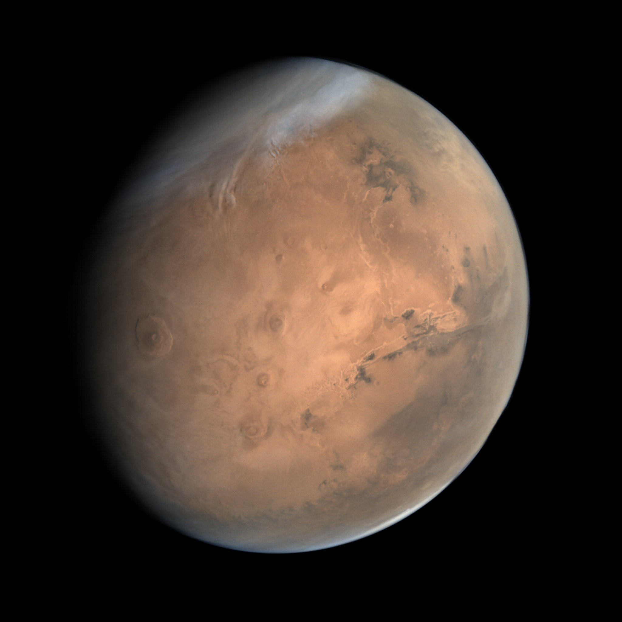 True-color image of Mars acquired by India's Mars Orbiter mission on October 10, 2014, from an altitude of 76000 km. Image Credit: ISRO / ISSDC / Justin Cowart